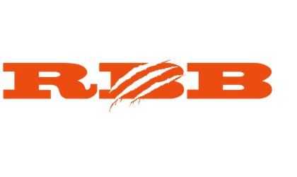 RBB logo.